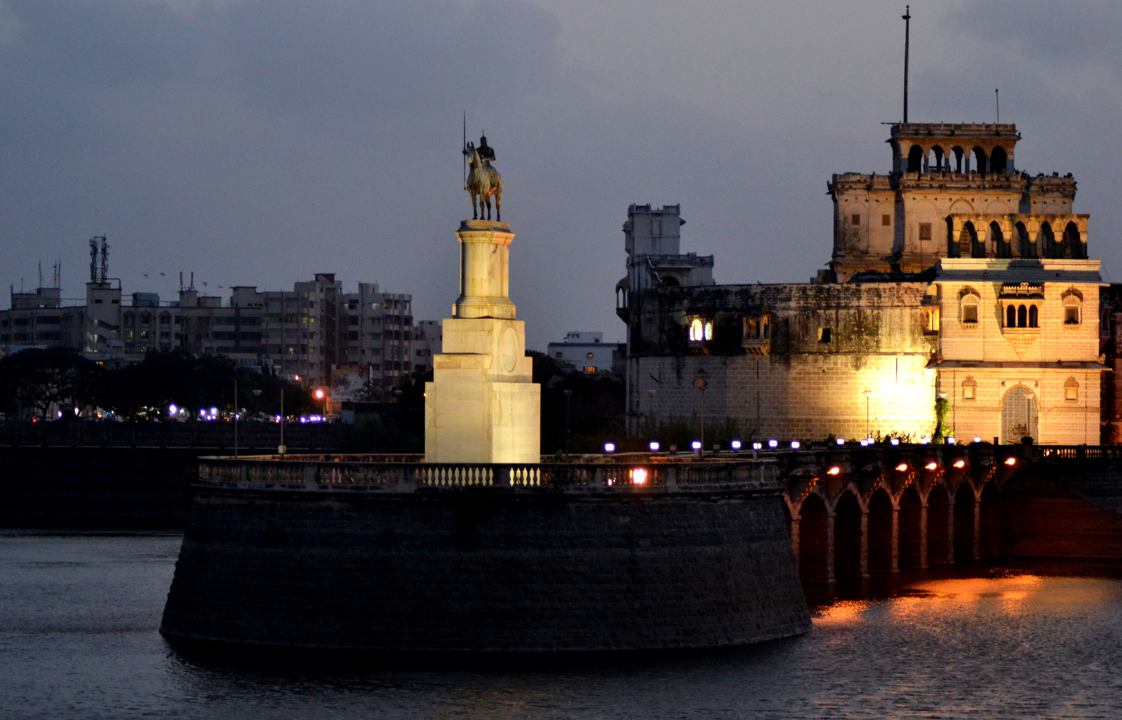 Lakhota Lake Palace in the city of Jamnagar, Gujarat India.